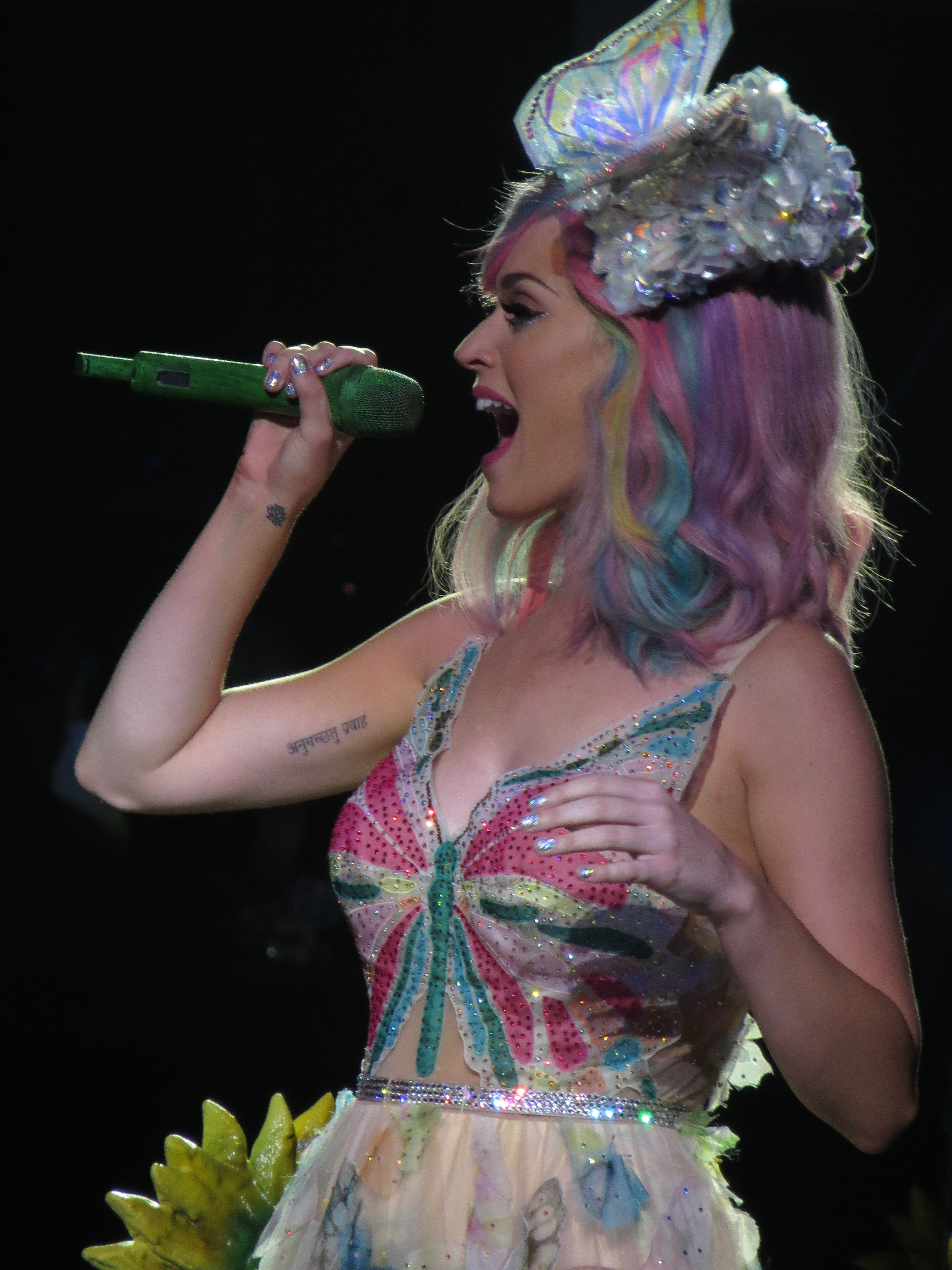 Katy Perry - The Prismatic World Tour